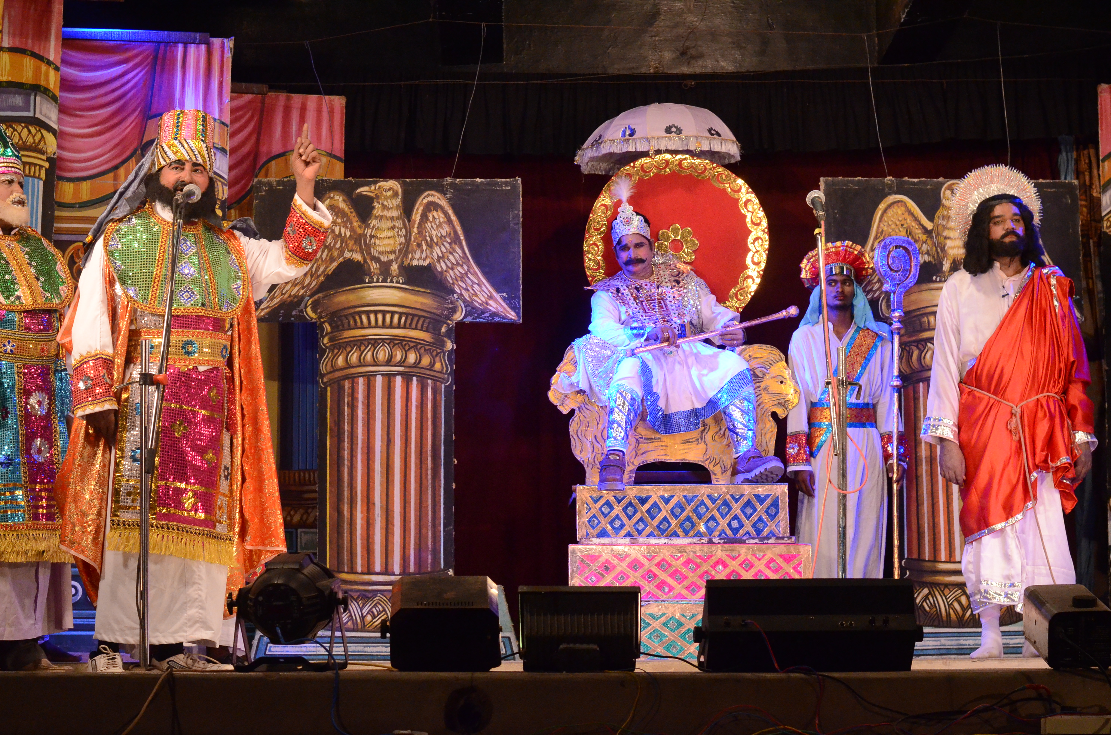 The scene of Judgement on Jesus by pylotes